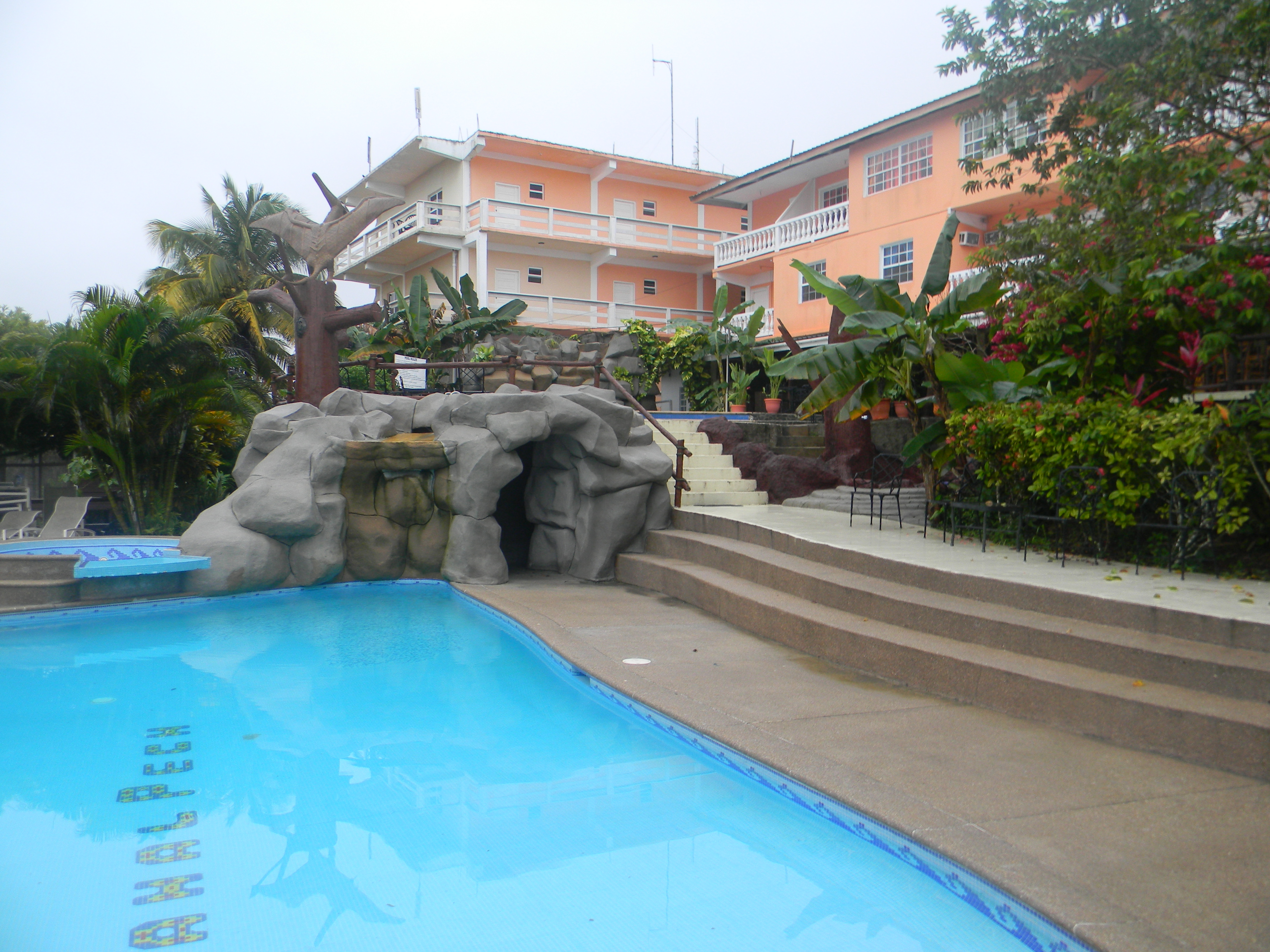 Swimming pool at Cahal Pech Village Resort in San Ignacio, Belize